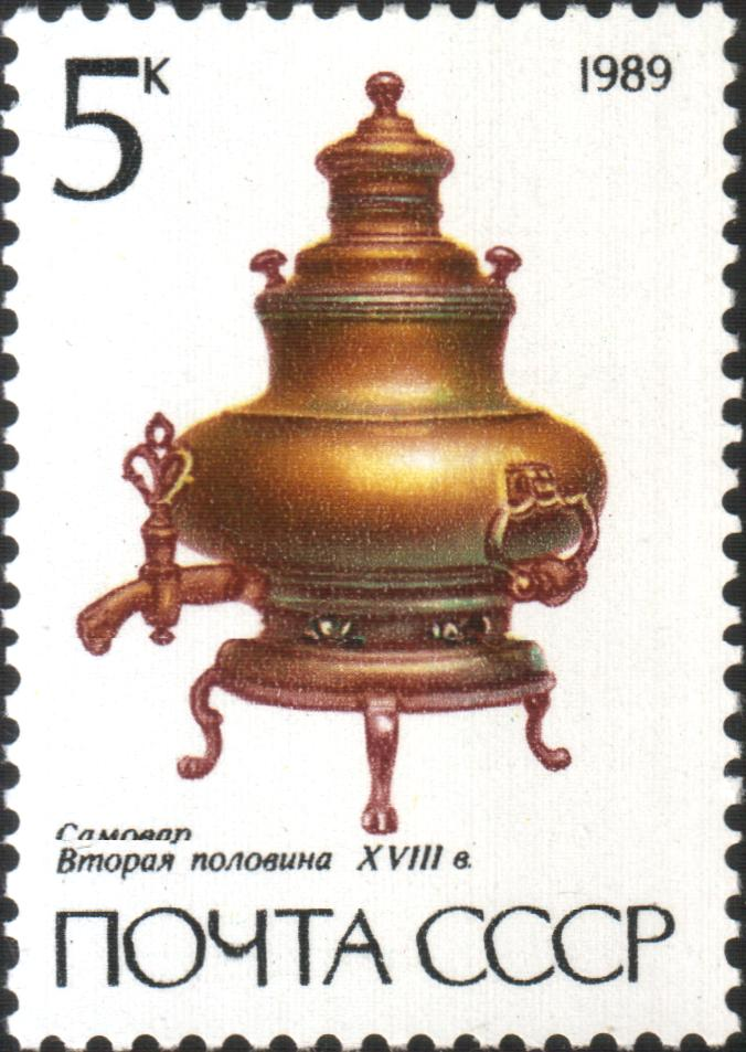 A USSR stamp, Pear-shaped samovar